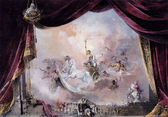 Painted stage curtain used for choreographer Marius Petipa and composer Riccardo Drigo's ballet "La Perle" staged for a gala at the Imperial Bolshoi Theatre in Moscow in honor of the coronation of Emperor Nicholas II & Empress Alexandra Fyodorovna.